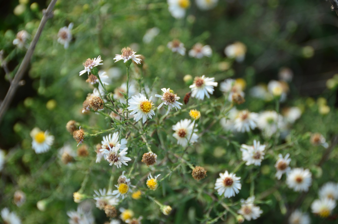 Symphyotrichum lanceolatum in Austria